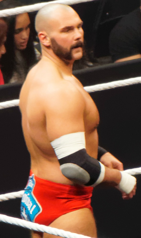 Scott Dawson during the NXT Takeover Dallas event in April 1, 2016.